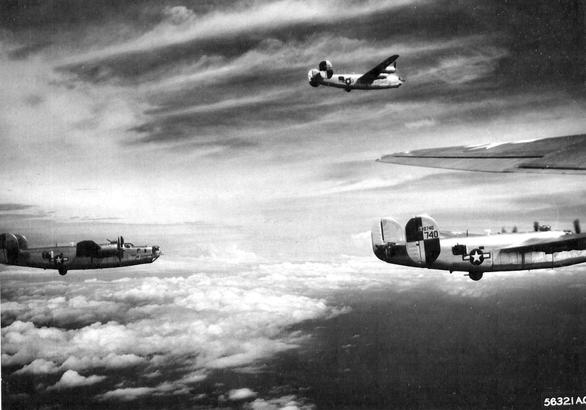 On the left is: "Pious Plunderer" B-24J-175-CO Liberator s/n 44-40668 865th BS, 494th BG On the right is: "Armed Venus" B-24J-175-CO Liberator s/n 44-40740 867th BS, 494th BG